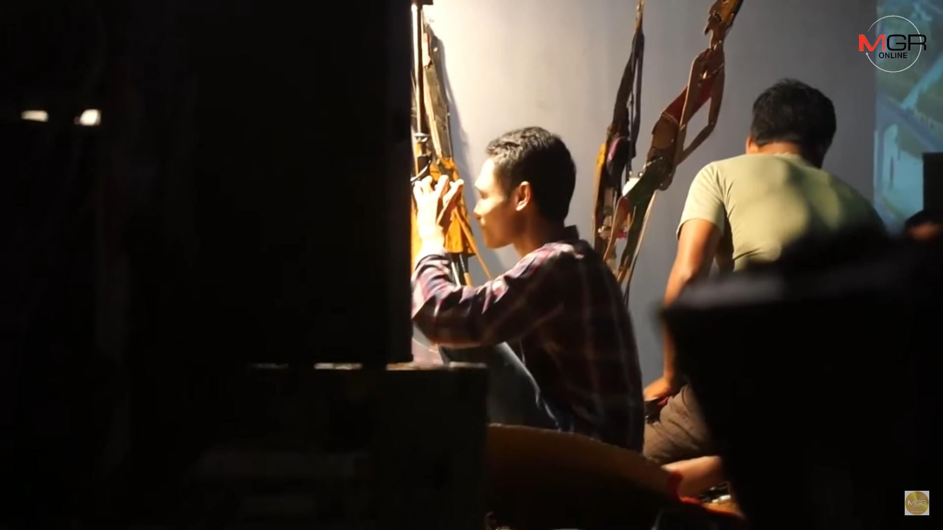 Banyat Suwannawaenthong is acting Thai traditional shadow puppet, on December 5, 2019